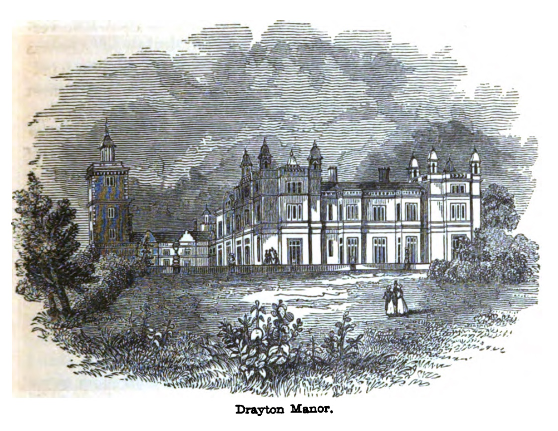 Drayton Manor from the Midland Counties' Railway Companion of 1840.